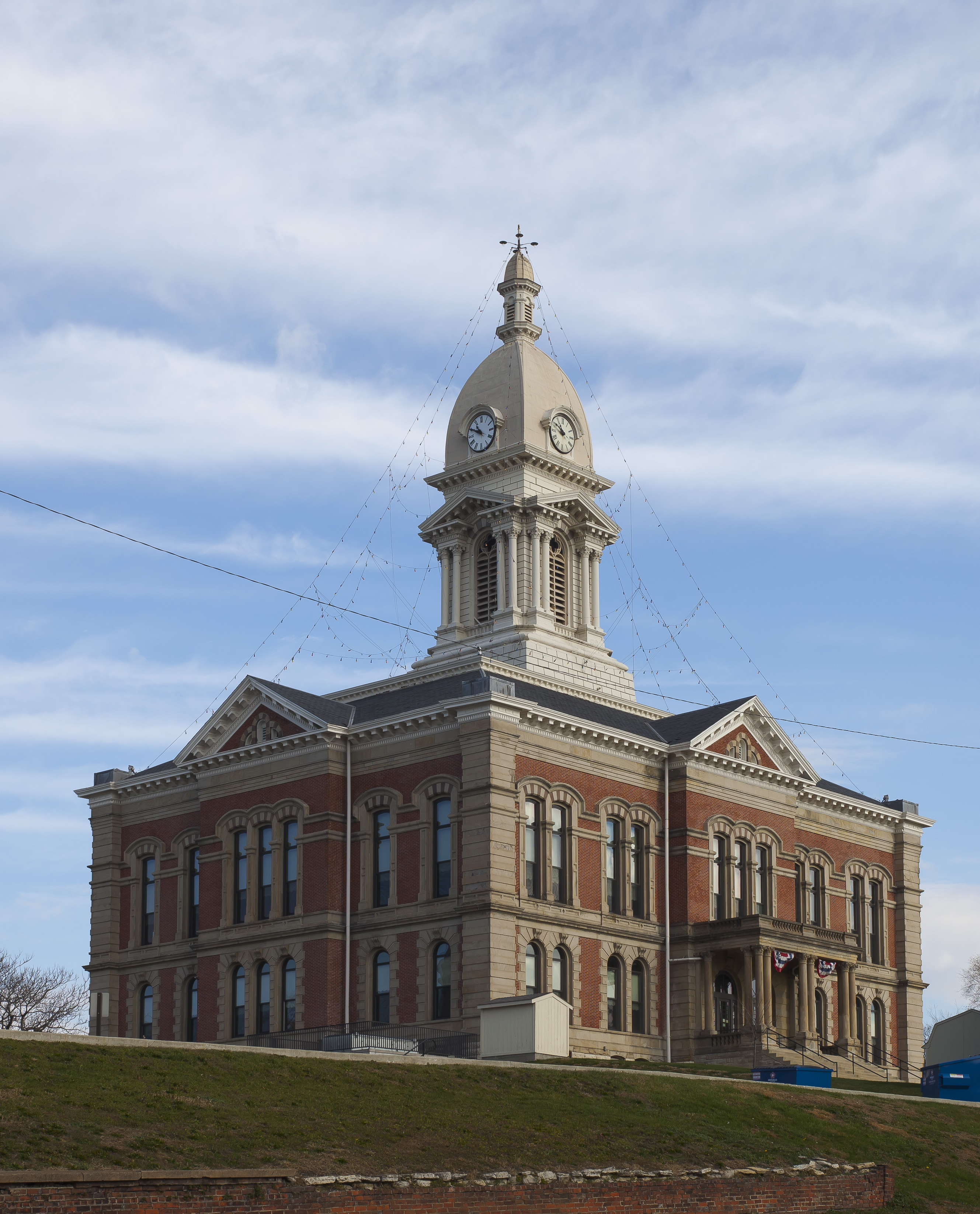 Wabash County Courthouse, Wabash, Indiana, USA